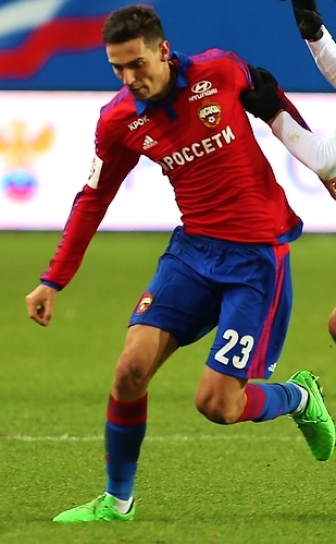 Georgi Milanov